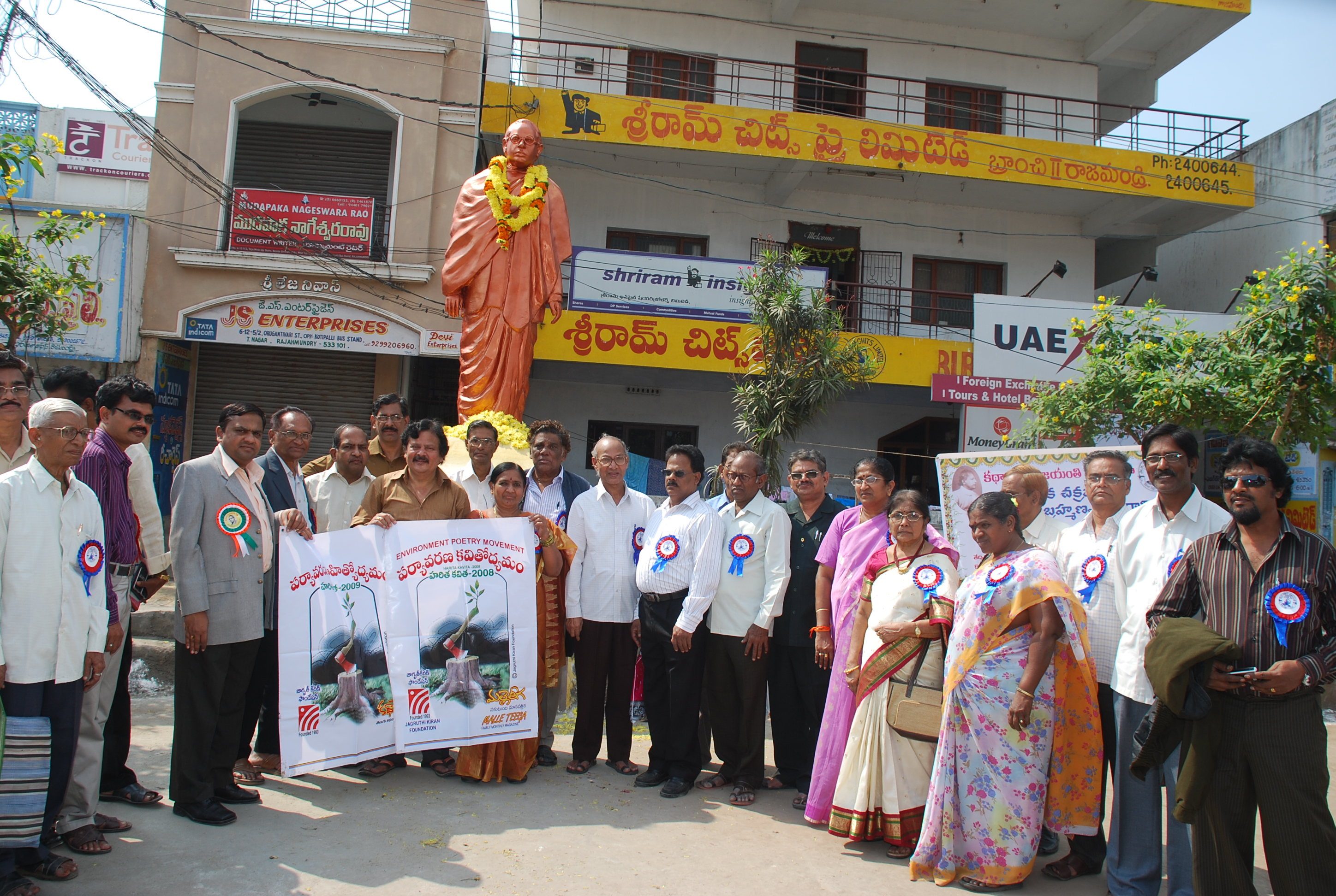 Prof Dr N N Murthy, Crusader of Paryavaran Kavitodyamam along with other prominent writers, poets paying tributes to Sripada Subramaniya Sastry before his statue along with Harita Kata banner during Telugu Short Story Centenary Celebrations at Rajahmundry (India) on 24 January 2010